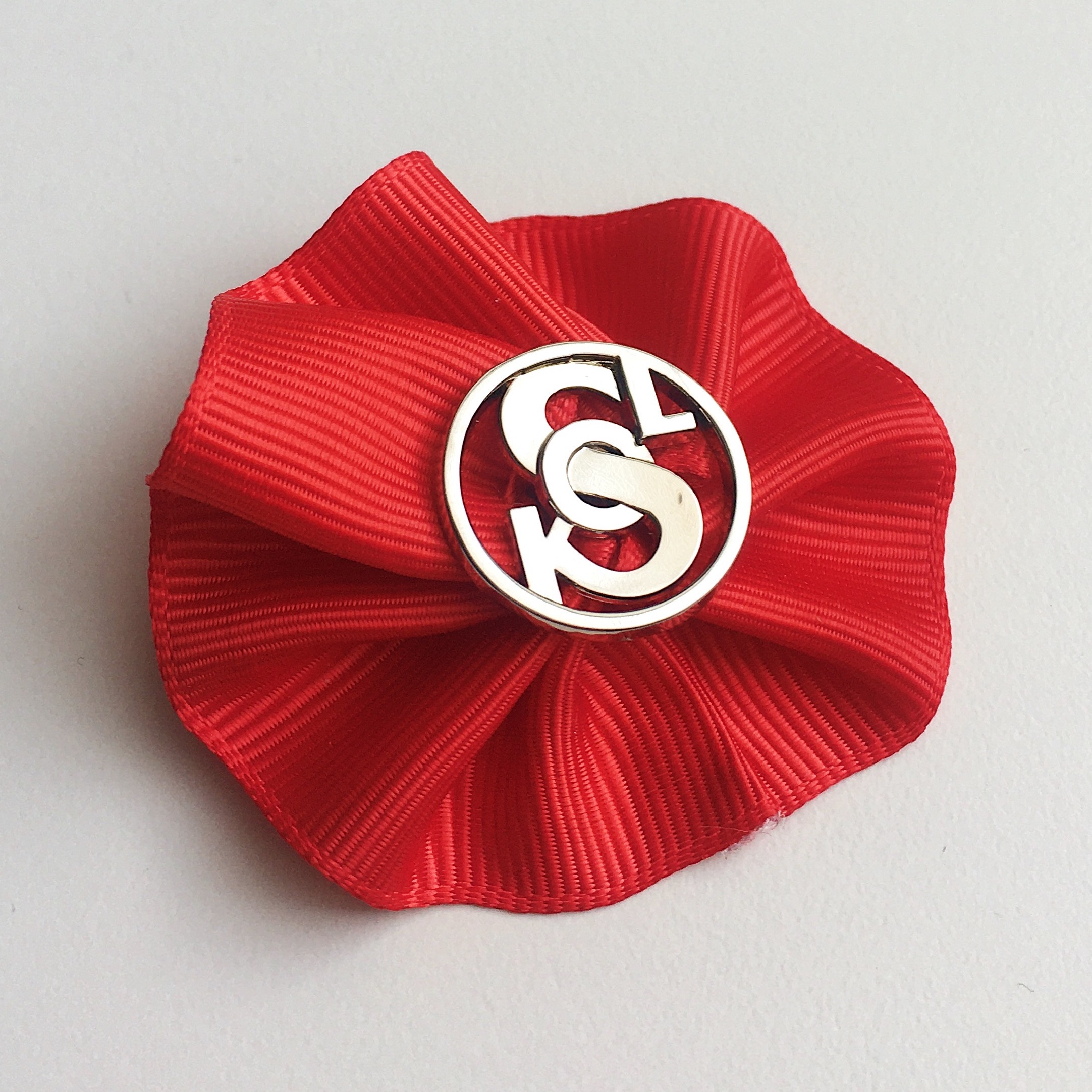 Kokarda